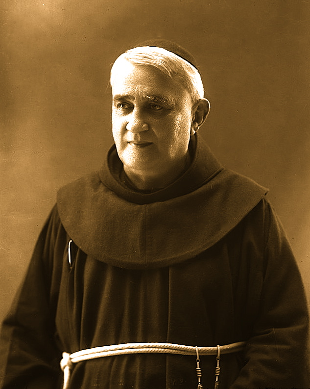 Father Gjergj Fishta